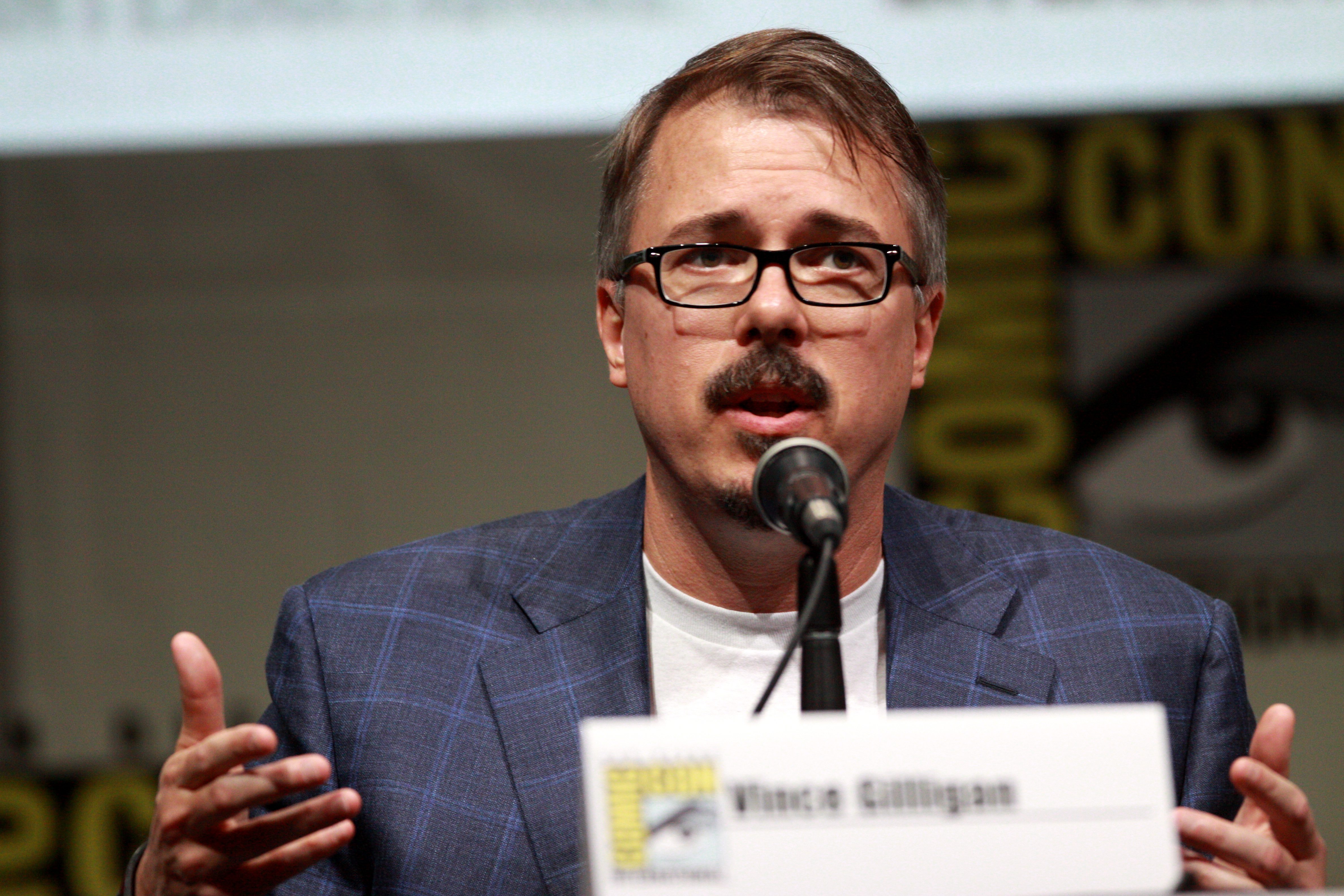 Vince Gilligan speaking at the 2013 San Diego Comic Con International, for "Breaking Bad", at the San Diego Convention Center in San Diego, California.